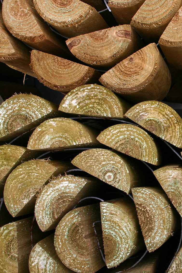 Fence Posts. Shepperton UK